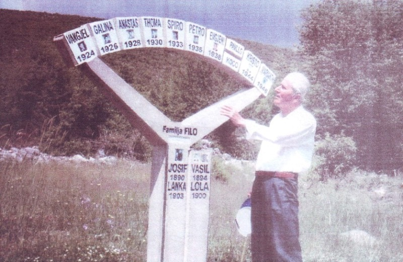 Filo family statue in Shales